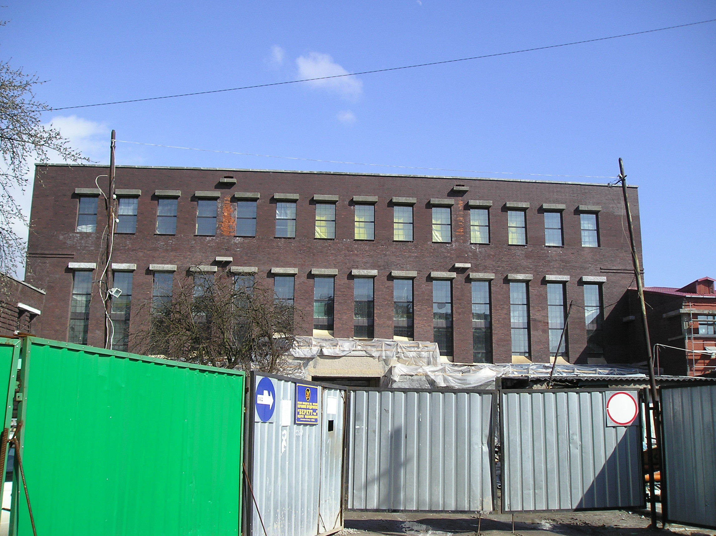 House of technology in Kaliningrad during restoration.